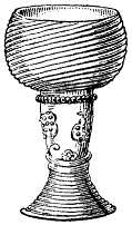 Rummer